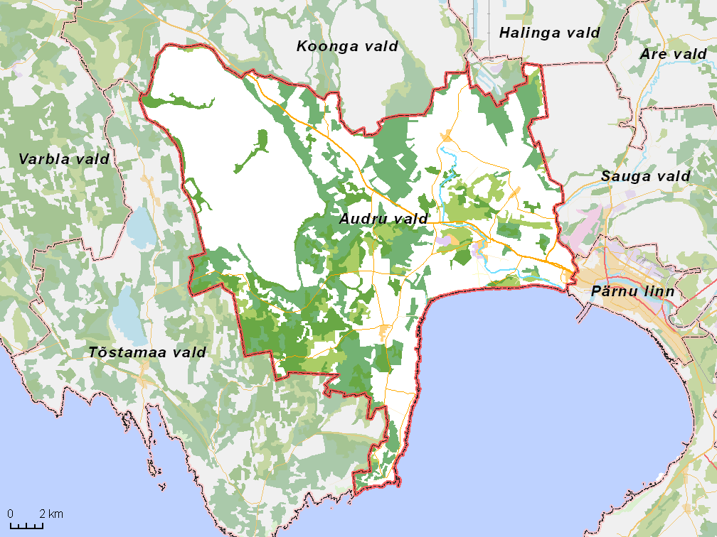 Map of municipality in Estonia